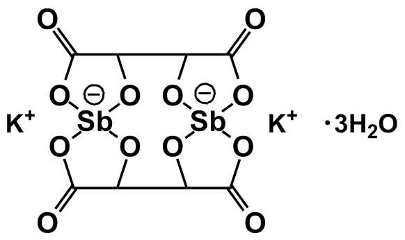 Structure of emetic, Antimony Potassium Tartrate. Based on